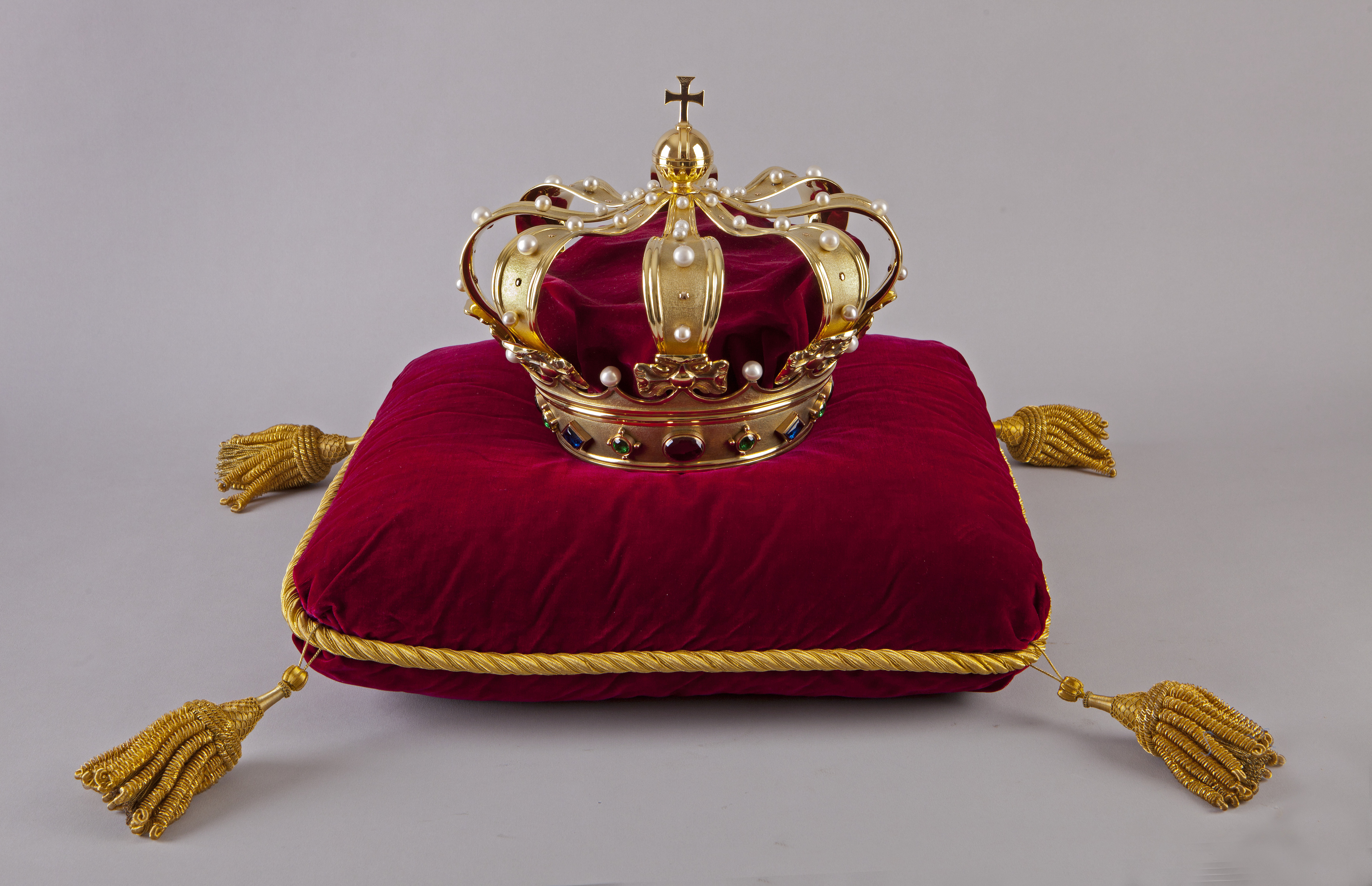 Crown of the Netherlands (Detail)